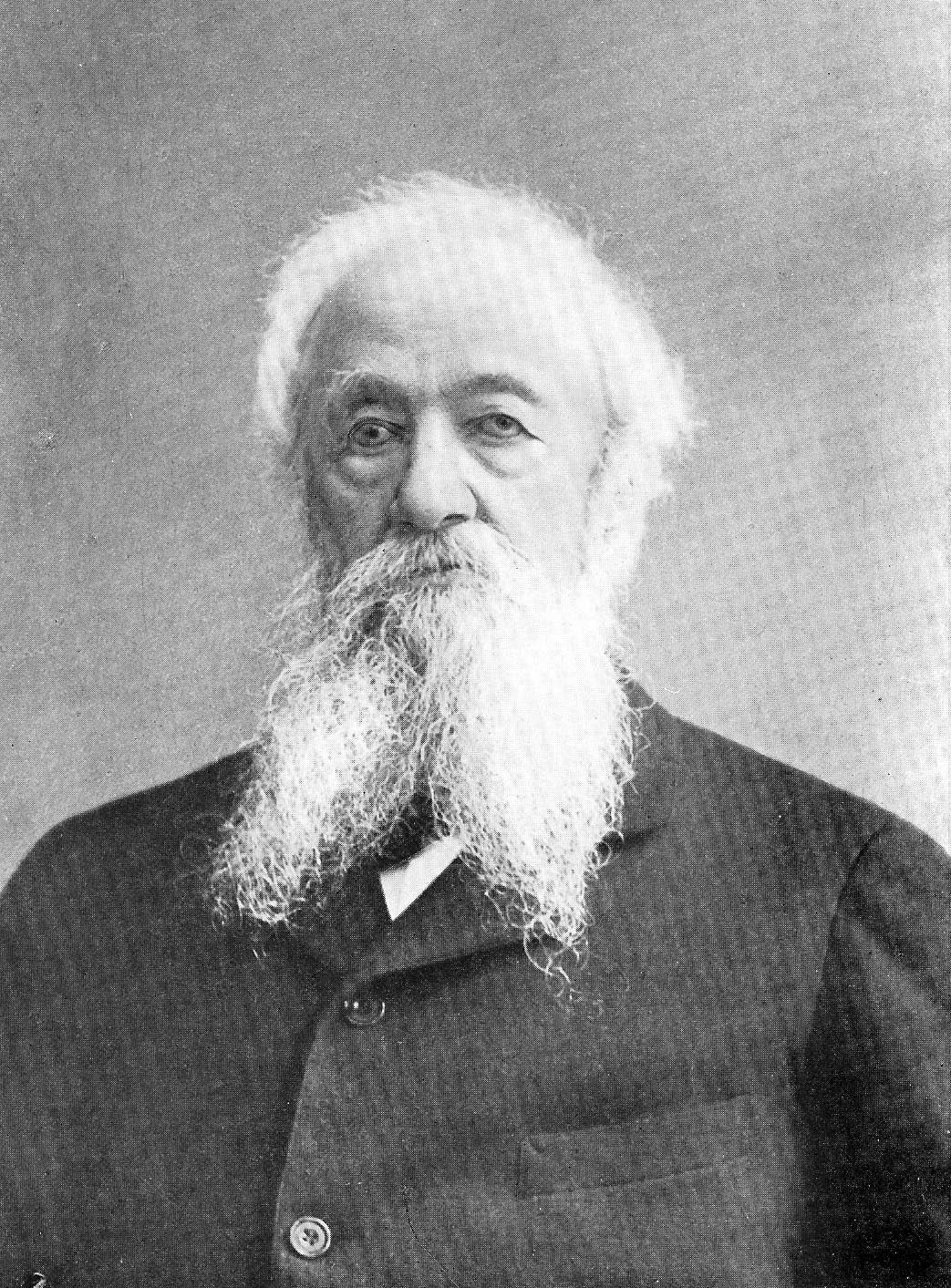 Swedish politician Axel Maurits Rosenquist